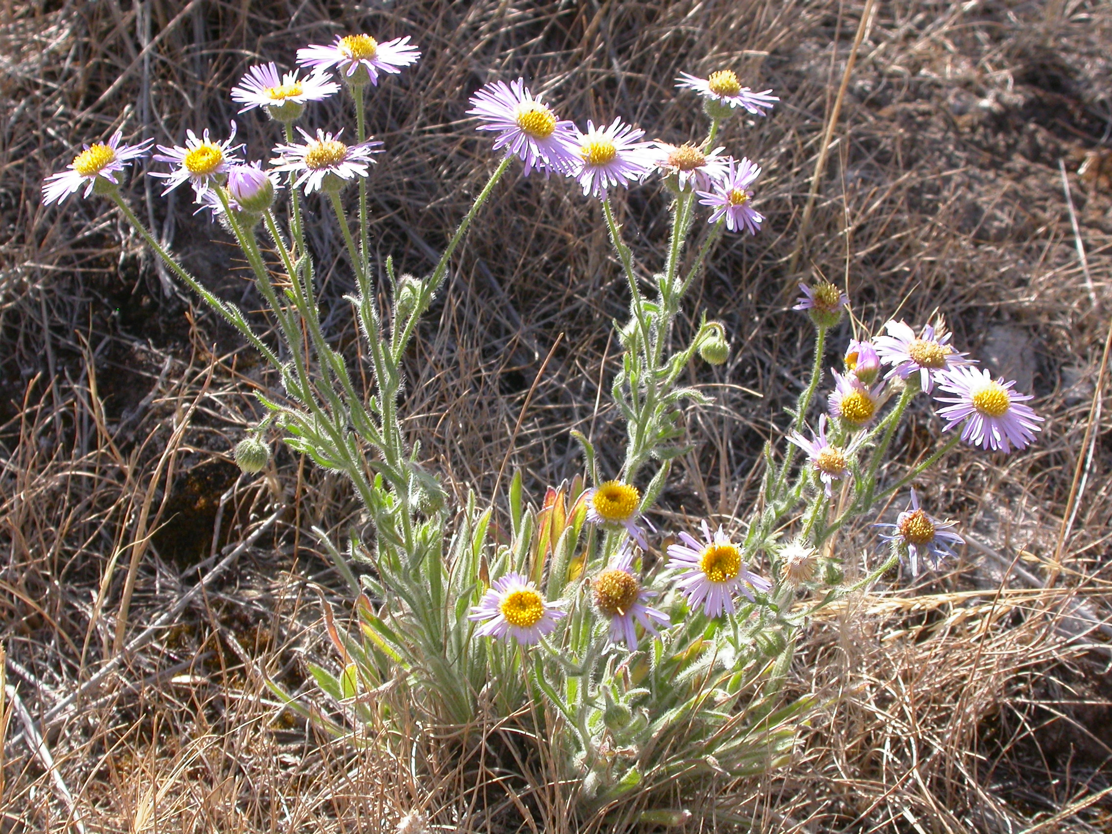 Shaggy fleabane is common and often the only fleabane in a sagebrush plant community throughout the steppes of southern Idaho.